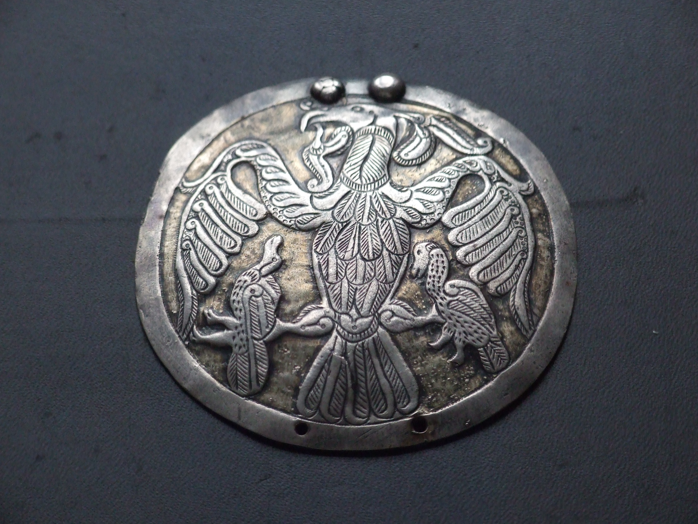 Gilt silver plague with motive of mythic bird (Hungary, 10th century). Prehistoric Times of Bohemia, Moravia and Slovakia, National Museum in Prague